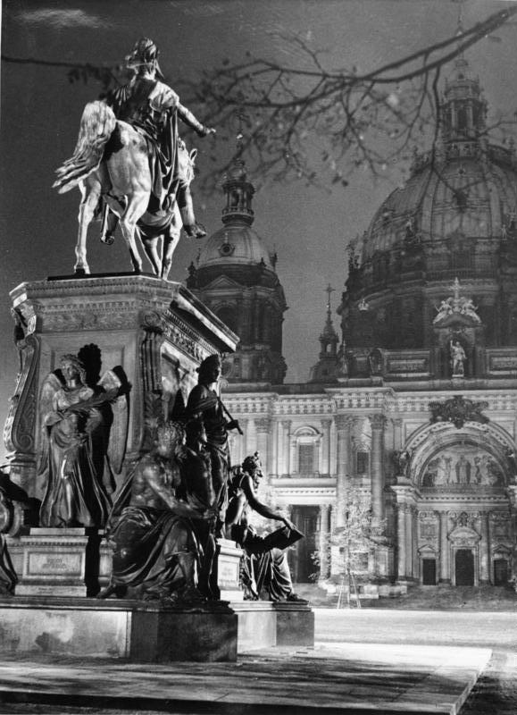 Berlin, Dom Information added by Wikimedia users.This picture is a photomontage! As can be seen in other pictures, the monument was facing the Stadtschloss, not the Dom, and would have been seen from the side, not the back as here, if you were facing the Dom. Unique picture taken after the Lustgarten was paved and the equestrian statue moved (1934-35).